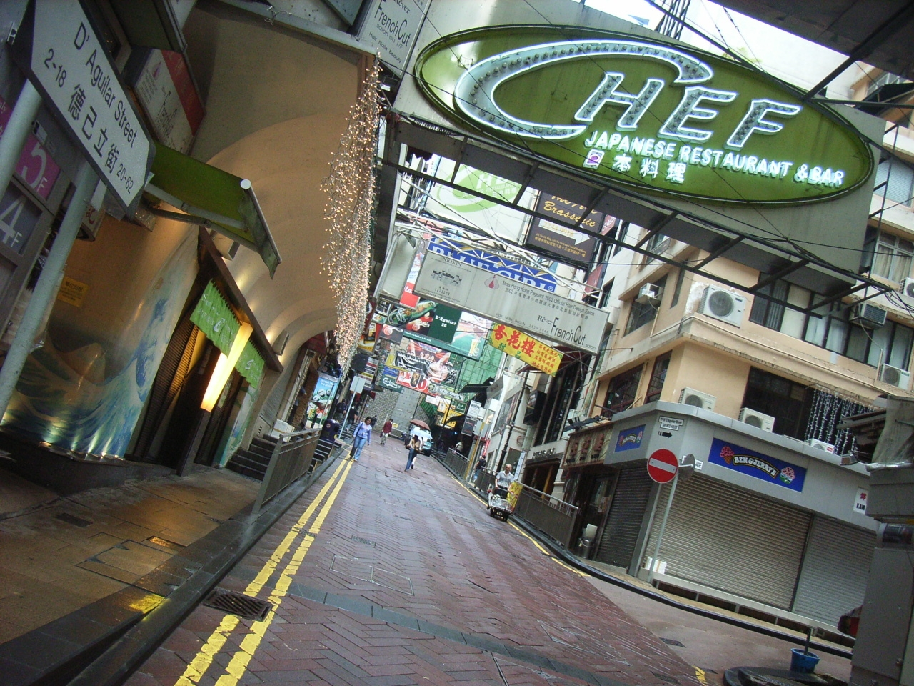 In a public holiday morning, Lan Kwai Fong, Central, Hong Kong by ShingWong